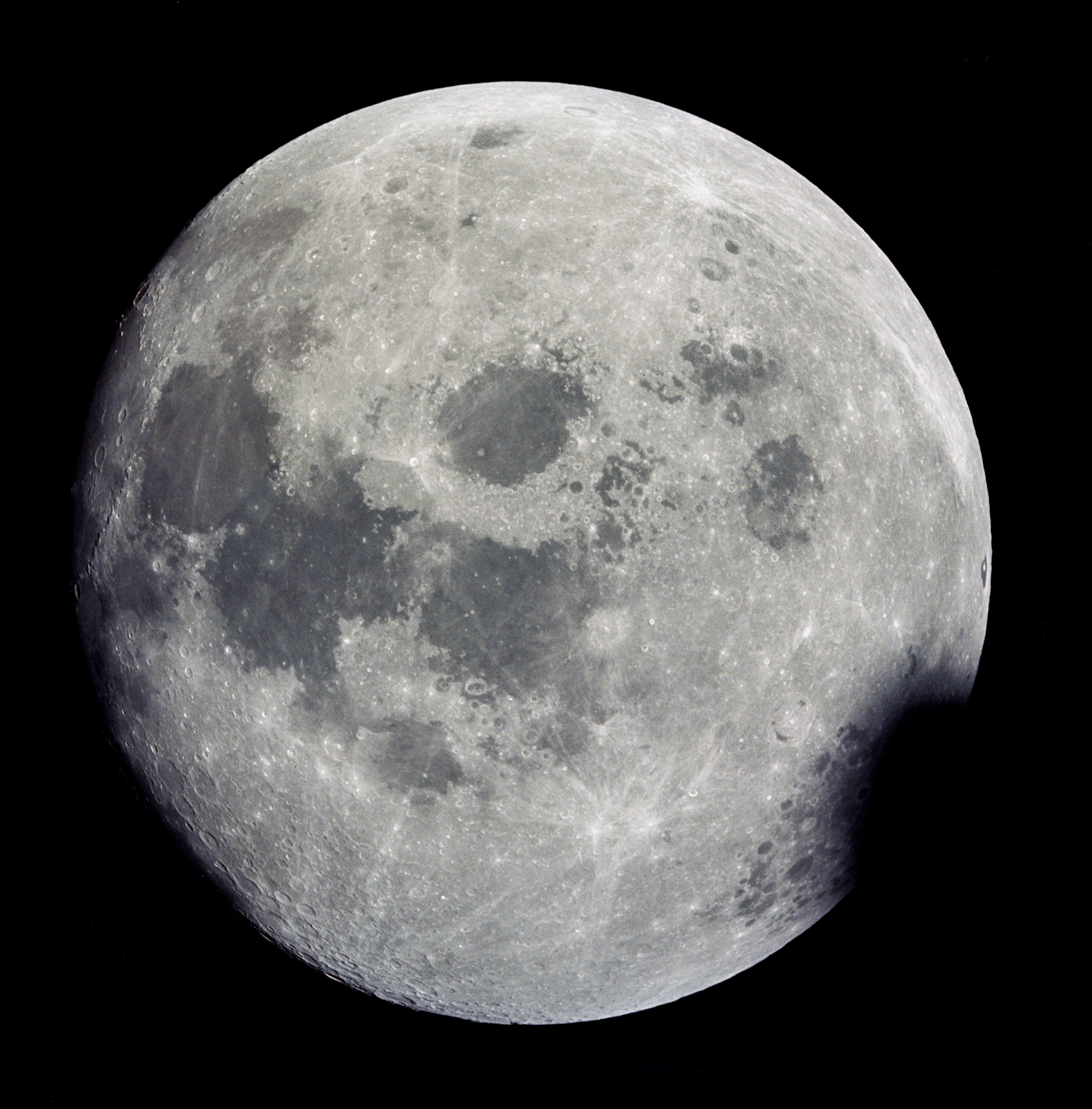 This outstanding view of a near full moon was photographed from the Apollo 13 spacecraft during its trans-Earth journey homeward. Though the explosion of the oxygen tank in the Service Module (SM) forced the cancellation of the scheduled lunar landing, Apollo 13 made a pass around the moon prior to returning to Earth. Some of the conspicuous lunar features include the Sea of Crisis, the Sea of Fertility, the Sea of Tranquility, the Sea of Serenity, the Sea of Nectar, the Sea of Vapors, the Border Sea, Smyth's Sea, the crater Langrenus, and the crater Tsiolkovsky.